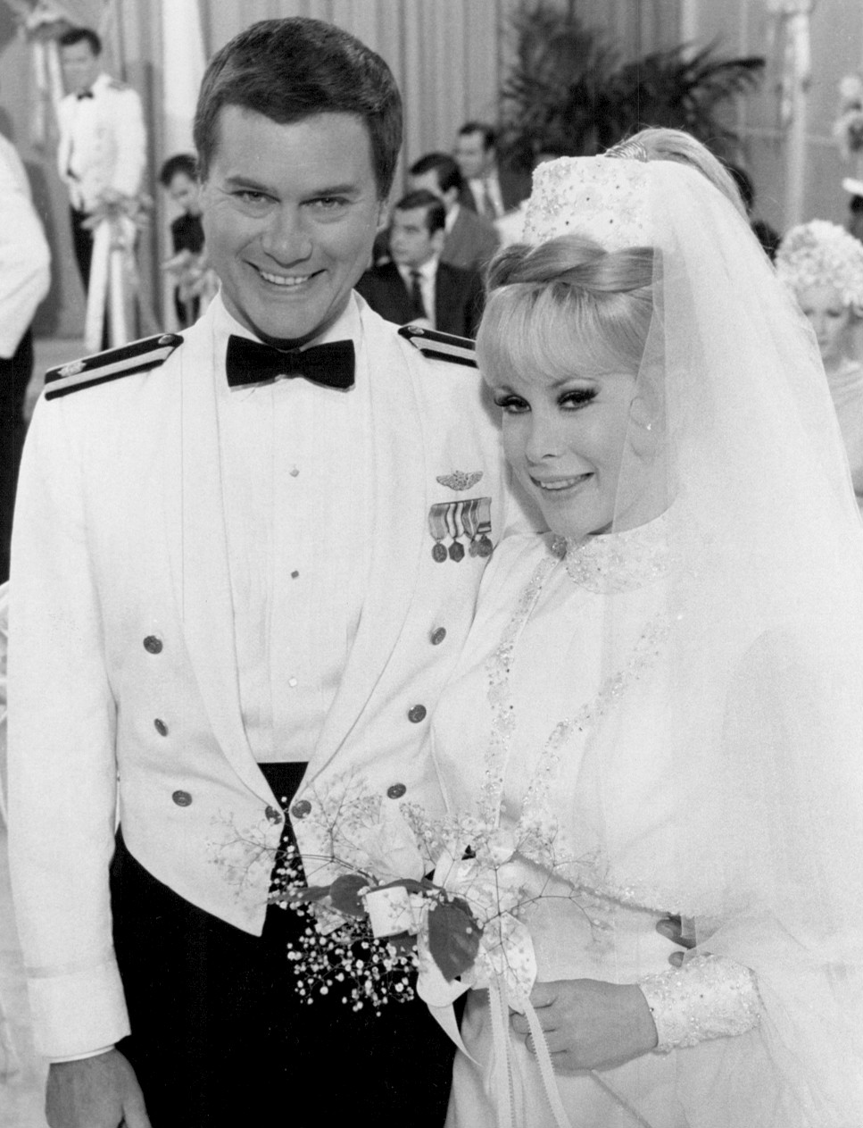 Photo of Jeannie and Tony's wedding from I Dream of Jeannie.